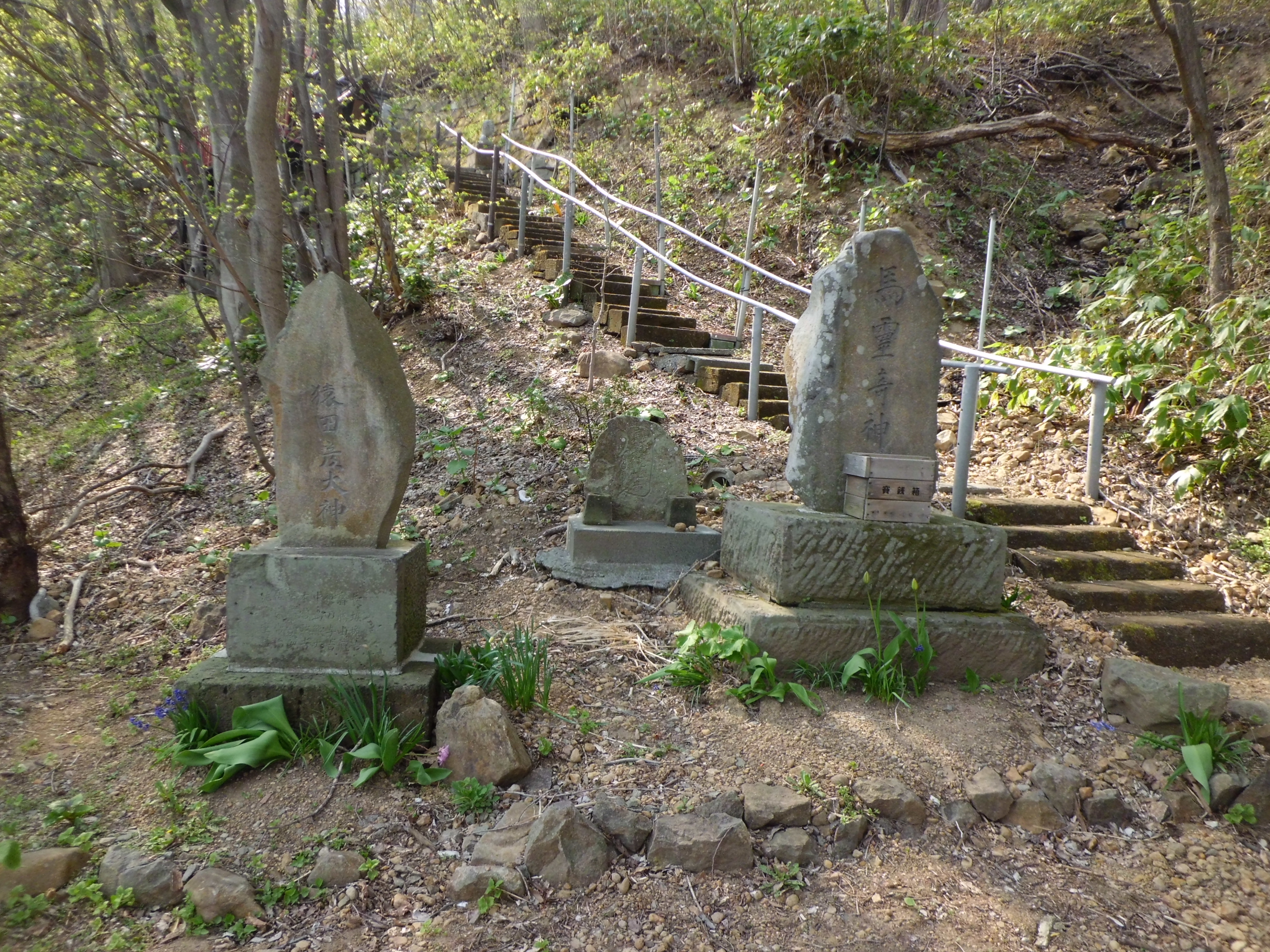 Monuments at Kami-Yamahana Shrine